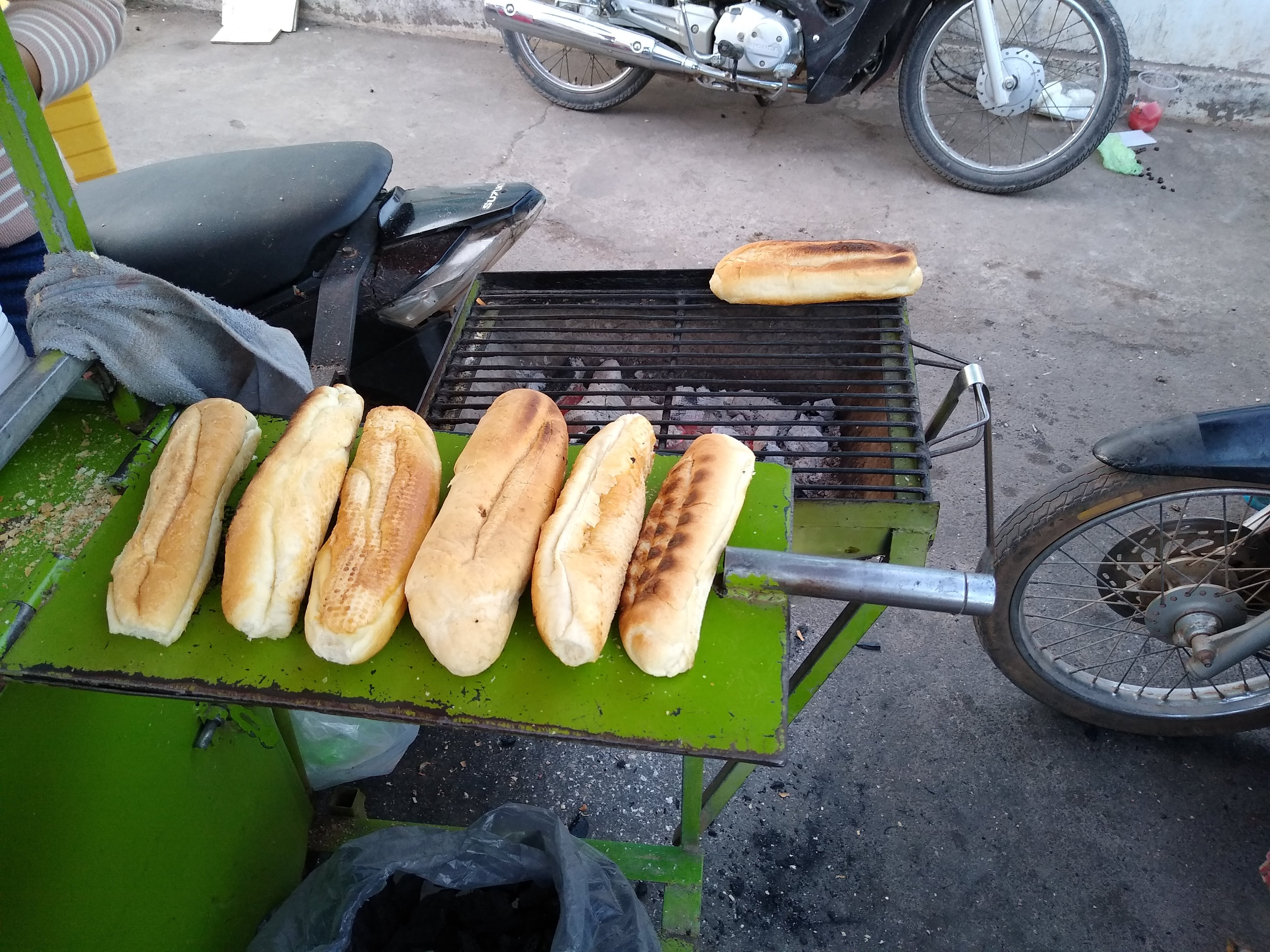 Baguettes on a street food cart in Kampot, Cambodia.